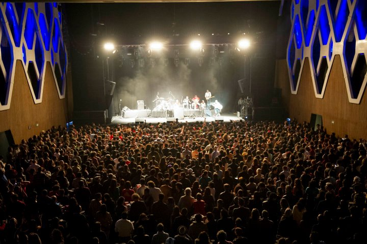 El Plaza Condesa, multipurpose event venue.